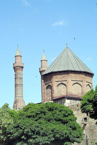 Şifaiye Madrasahs, Sivas